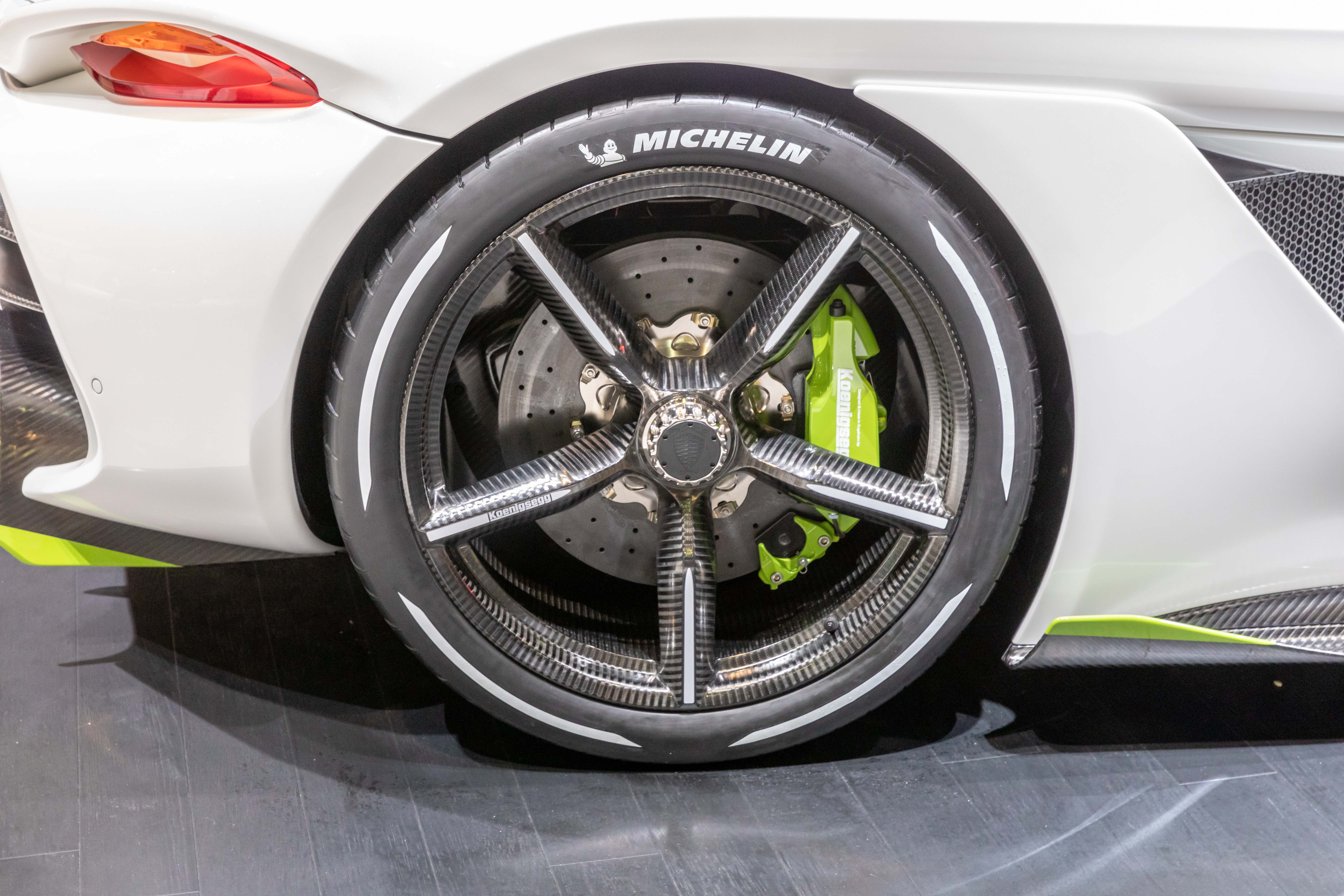 Koenigsegg Jesko at Geneva International Motor Show 2019, Le Grand-Saconnex